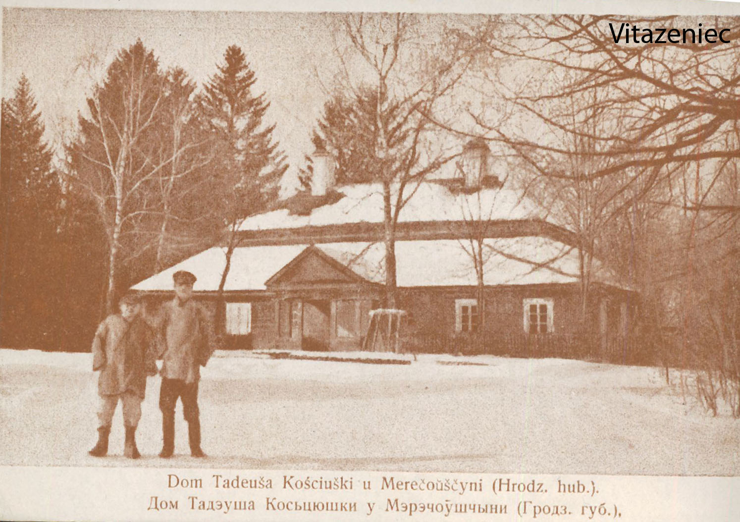 Postcard of be:Загляне сонца і ў наша аконца